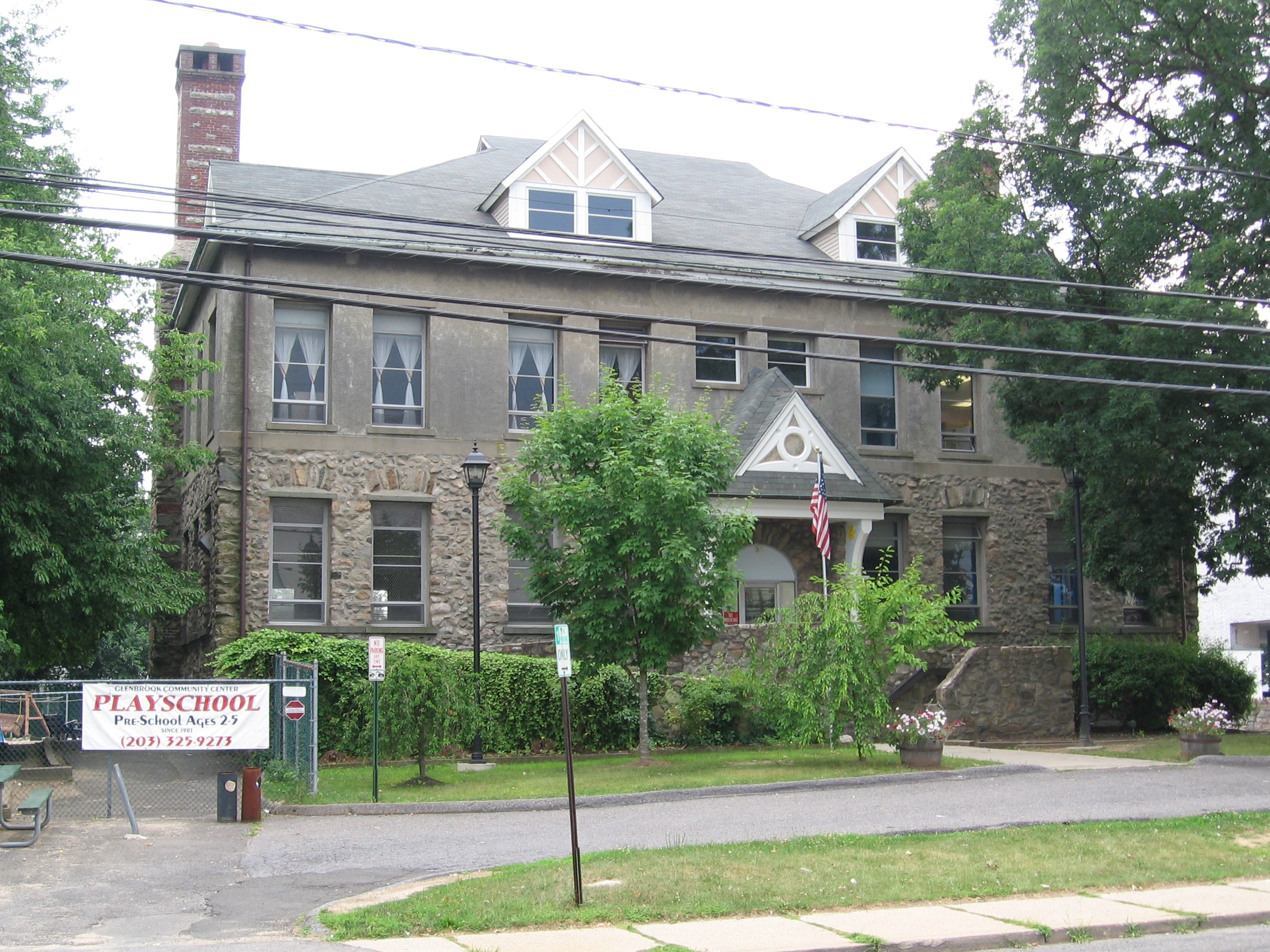 Glenbrook Community Center in Glenbrook, a neighborhood in Stamford, Connecticut; a photograph taken July 15, 2007, late afternoon, from the street. A picture postcard of the same building (without the second story) taken about (but no later than) 1907: Image:GlenbrookSchoolPre1907.jpg